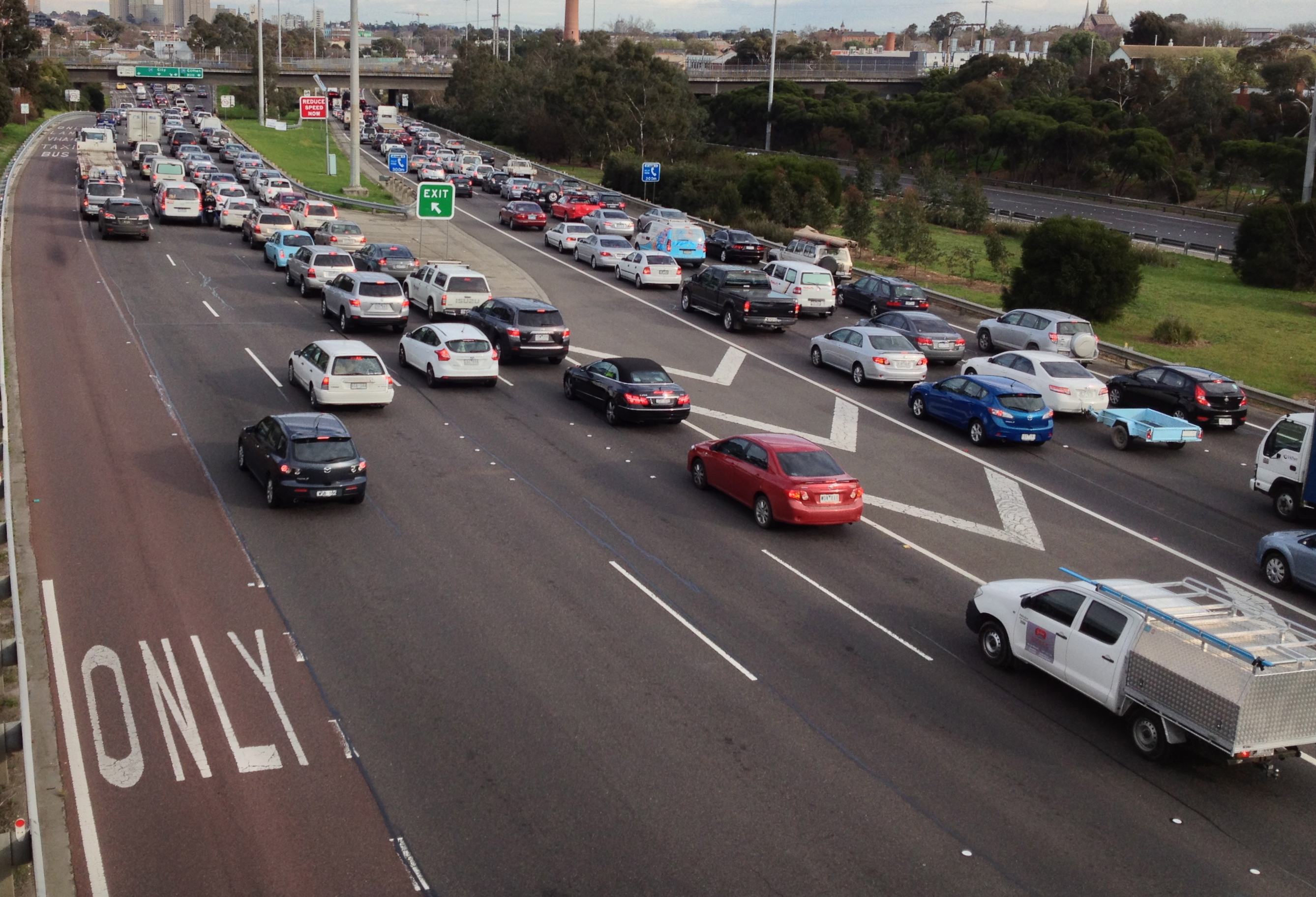 Morning traffic congestion on Eastern Freeway, Melbourne, approaching Hoddle St exit